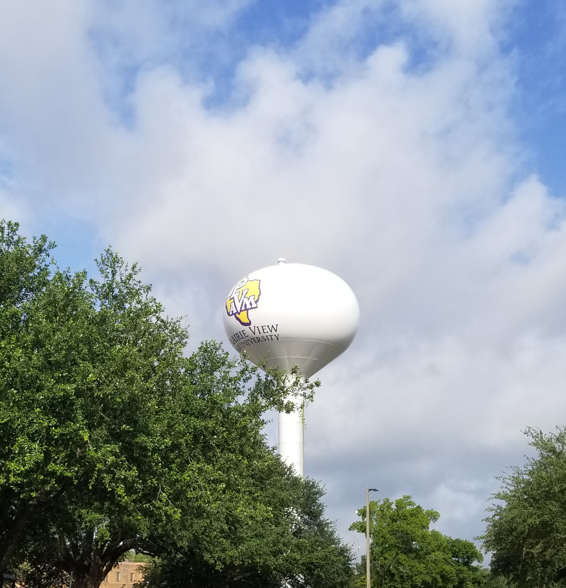 Prairie View Watertower